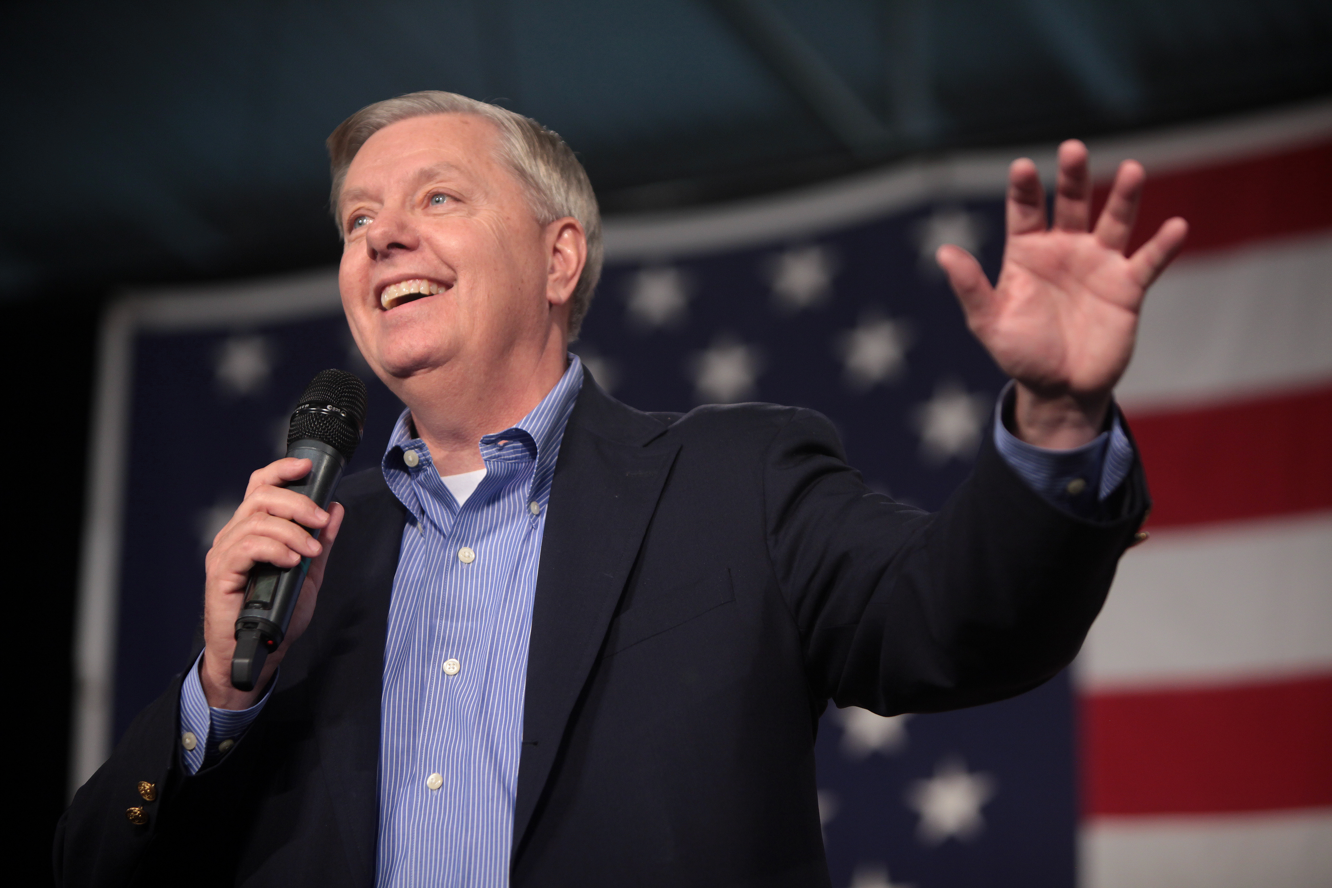 Lindsey Graham speaking at the Iowa GOP's Growth and Opportunity Party in Des Moines, Iowa on October 31, 2015.